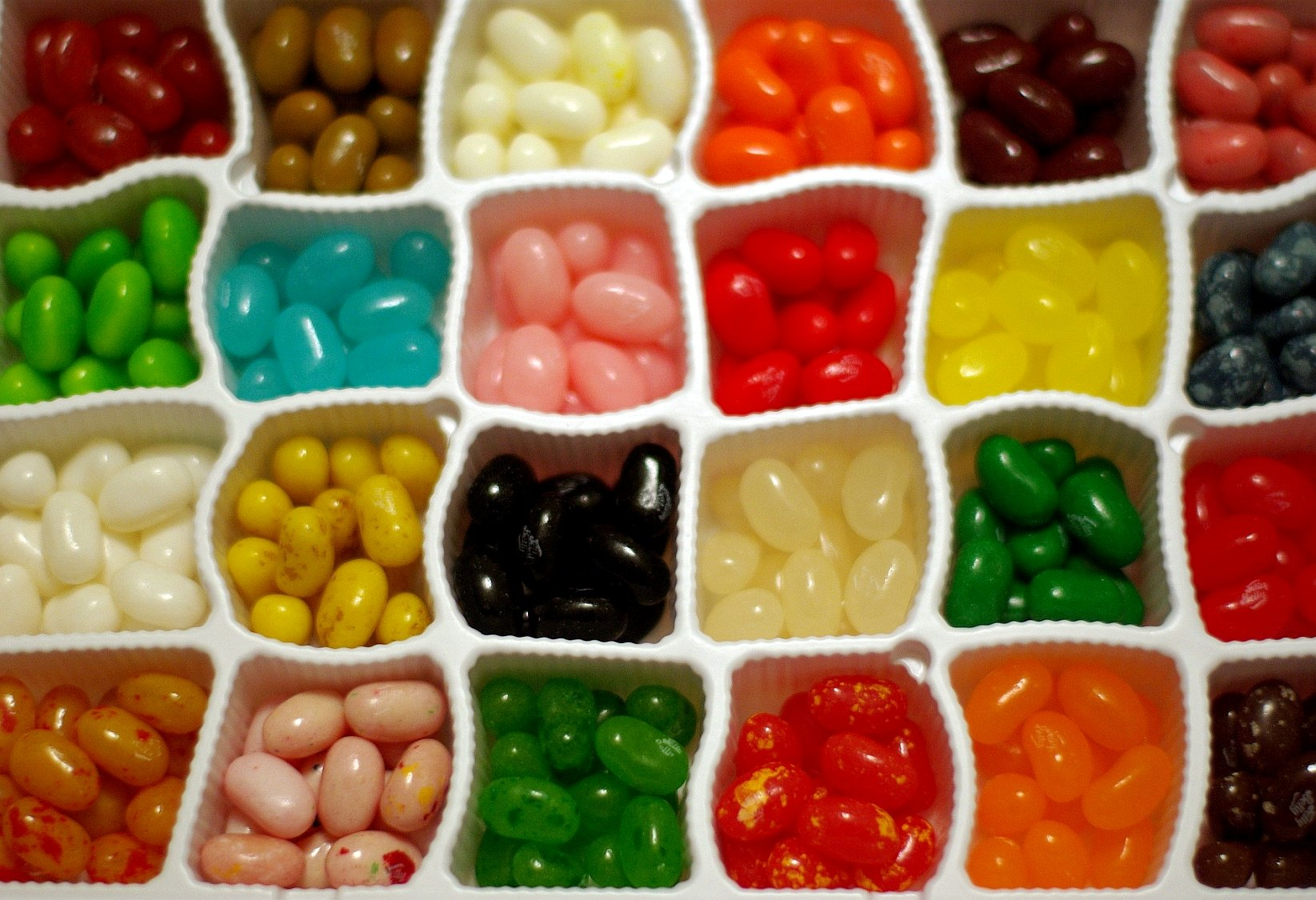 Jelly Belly jelly beans.